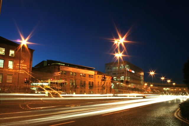 The Media Centre Huddersfield